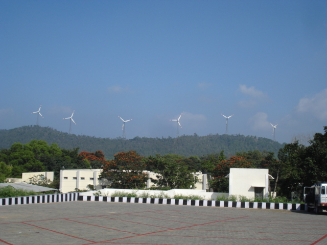 A view of the windmills on the Seshachalam Hills